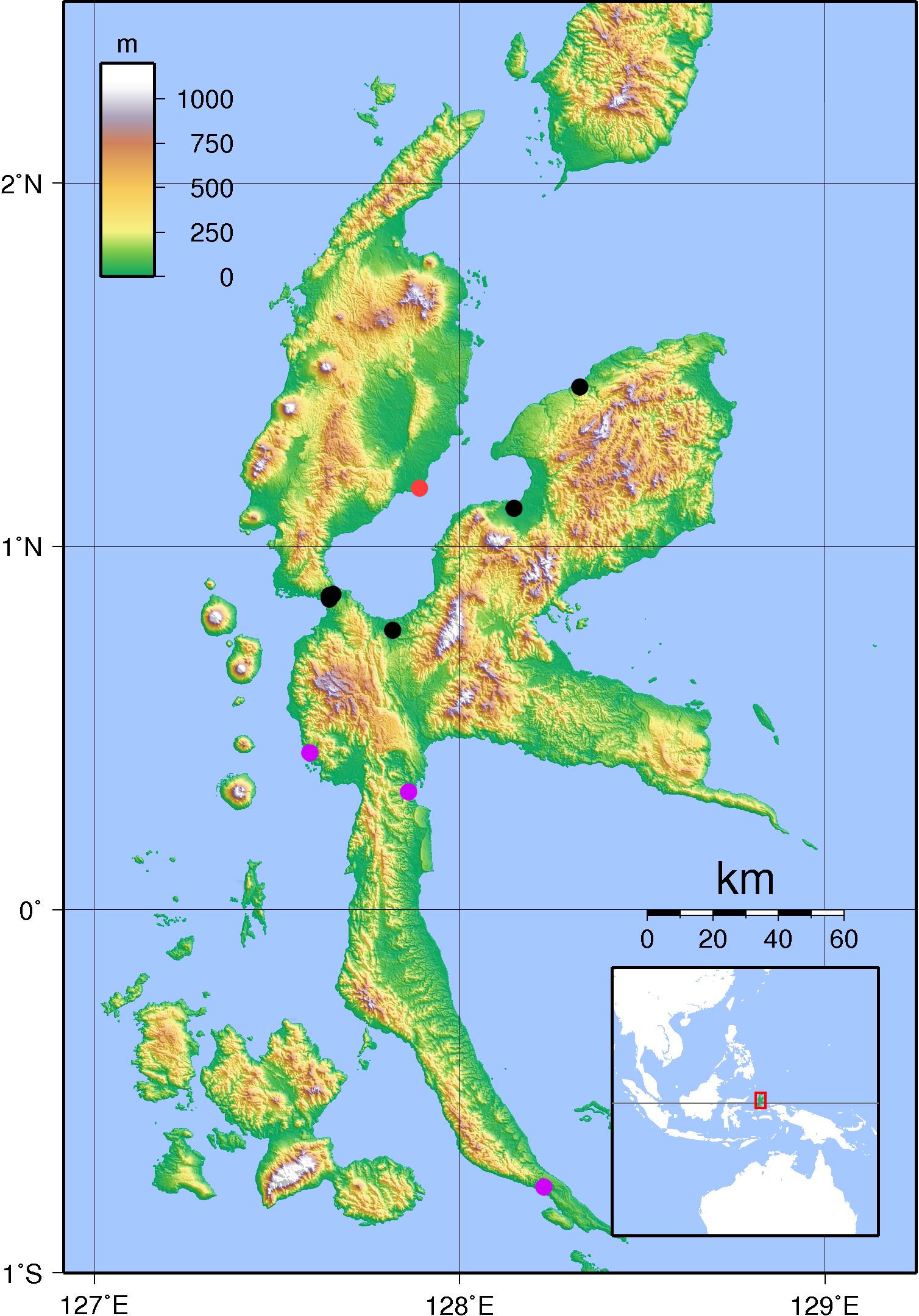 Range map for Habroptila wallacii on Halmahera Black is recent records, purple pre-1950, red shows Kao town Sources are Birdbase, (2011). "First breeding record of the Invisible Rail Habroptila wallacii". BirdingAsia 15: 20–22. Base map is Commons file File:Halmahera_Topography.png